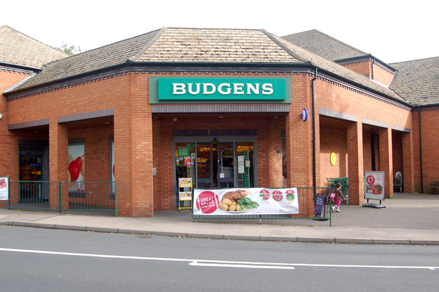 The entrance to Budgens supermarket, Southam